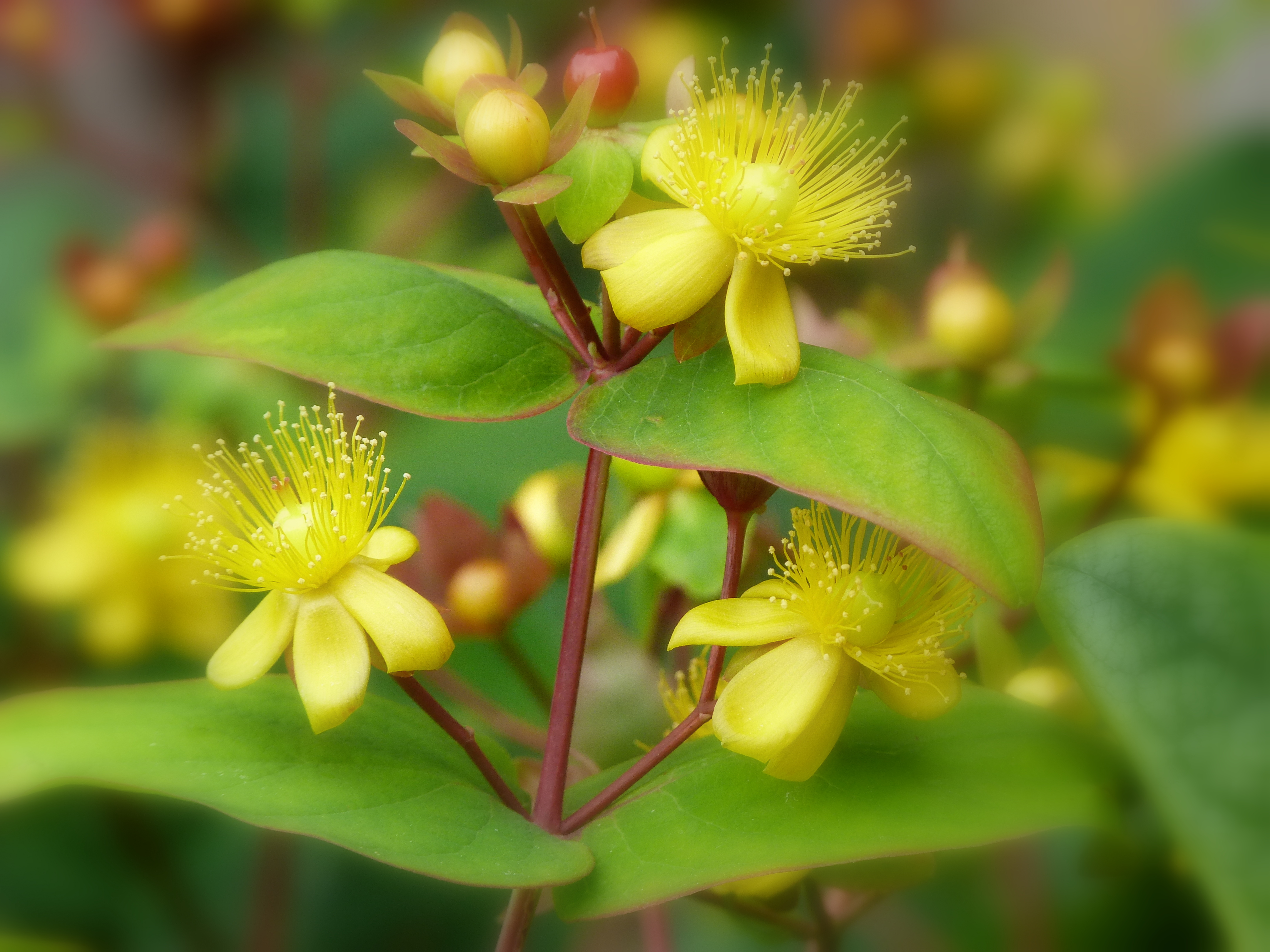 Dont really enjoy taking these sort of shots, not the best with colours, practice I suppose will help !